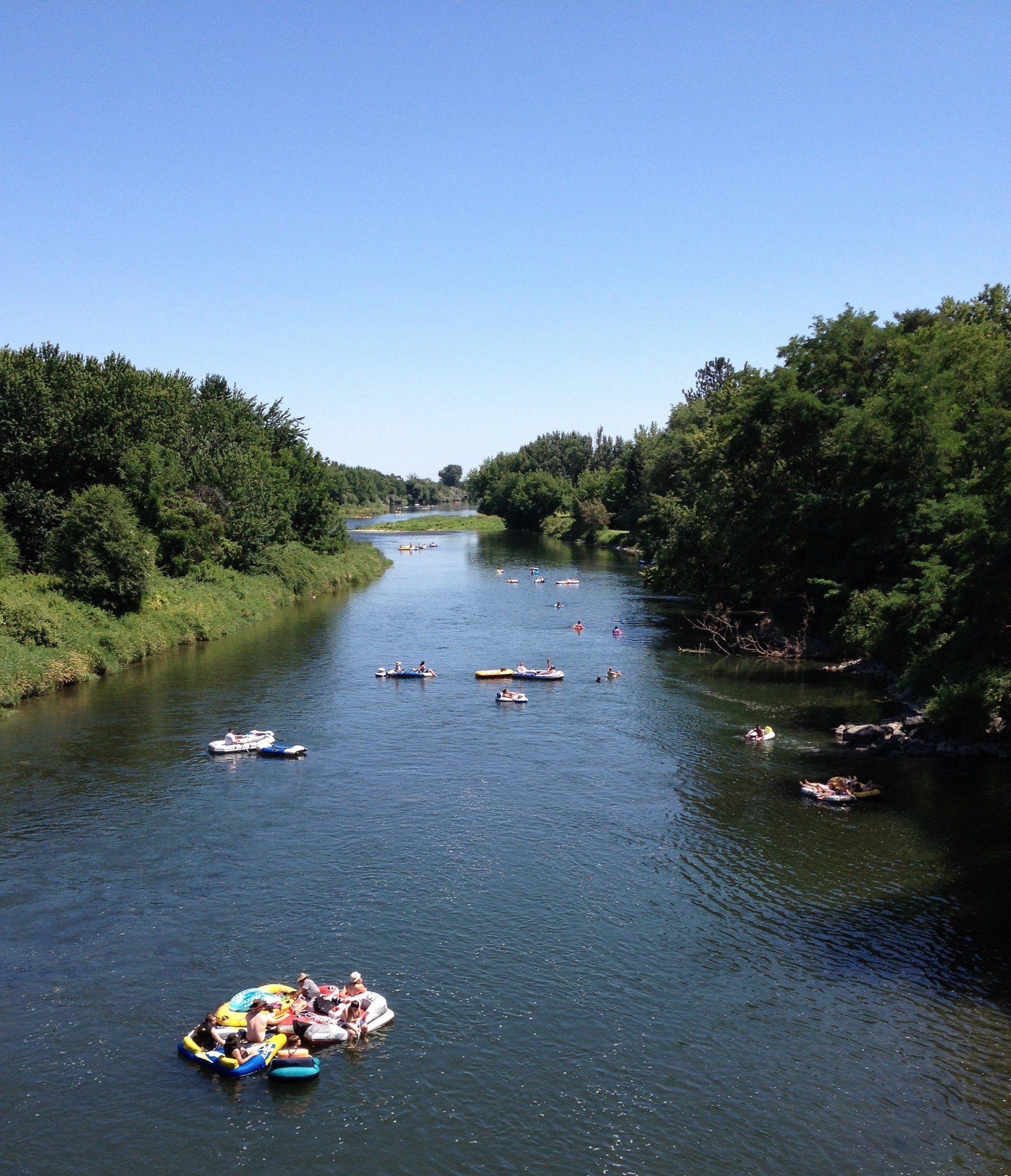 Rafters enjoying a summer day on the Yakima River at West Richland, Washington below Horn Rapids and above the confluence with the Columbia River. This picture is taken with cell phone from the Twin Bridges westernmost bridge.